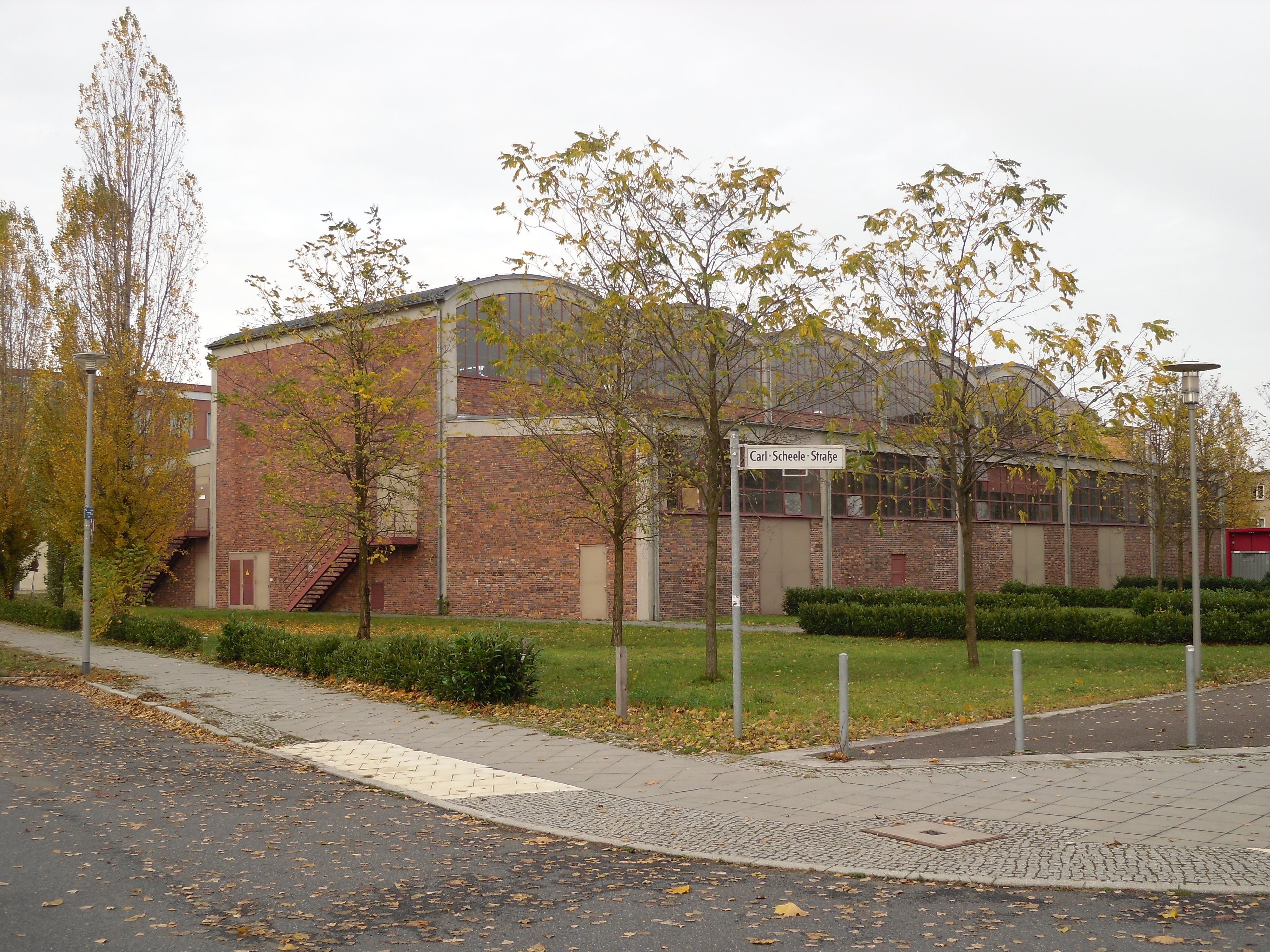 Height modeling laboratory